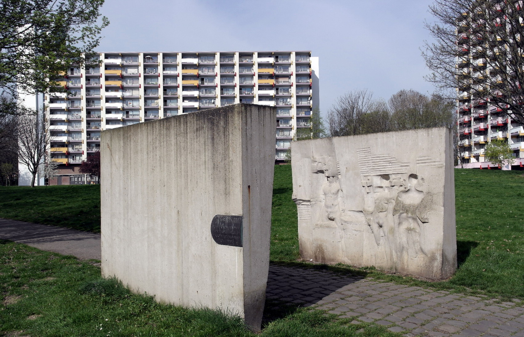 Maastricht, the Netherlands. Pair of stone blocks marking of the Roman road at Romeinsebaan in the southwestern neighbourhood of Daalhof. Archaeological finds indicate that Romeinsebaan ("Roman track") was once part of the Roman road from Boulogne-sur-Mer via Maastricht to Cologne. In the background highrise apartment blocks Veliahof and Palatijnhof in a parkland setting.